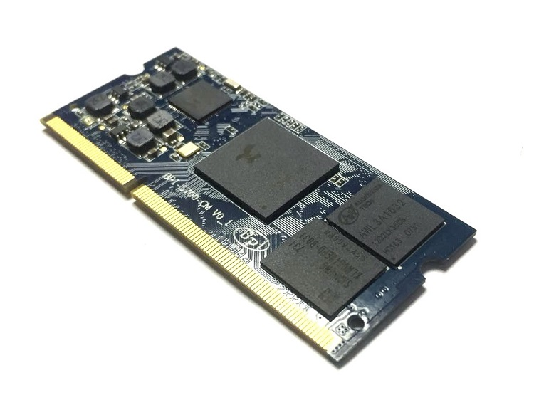 BPI-S64 core 1